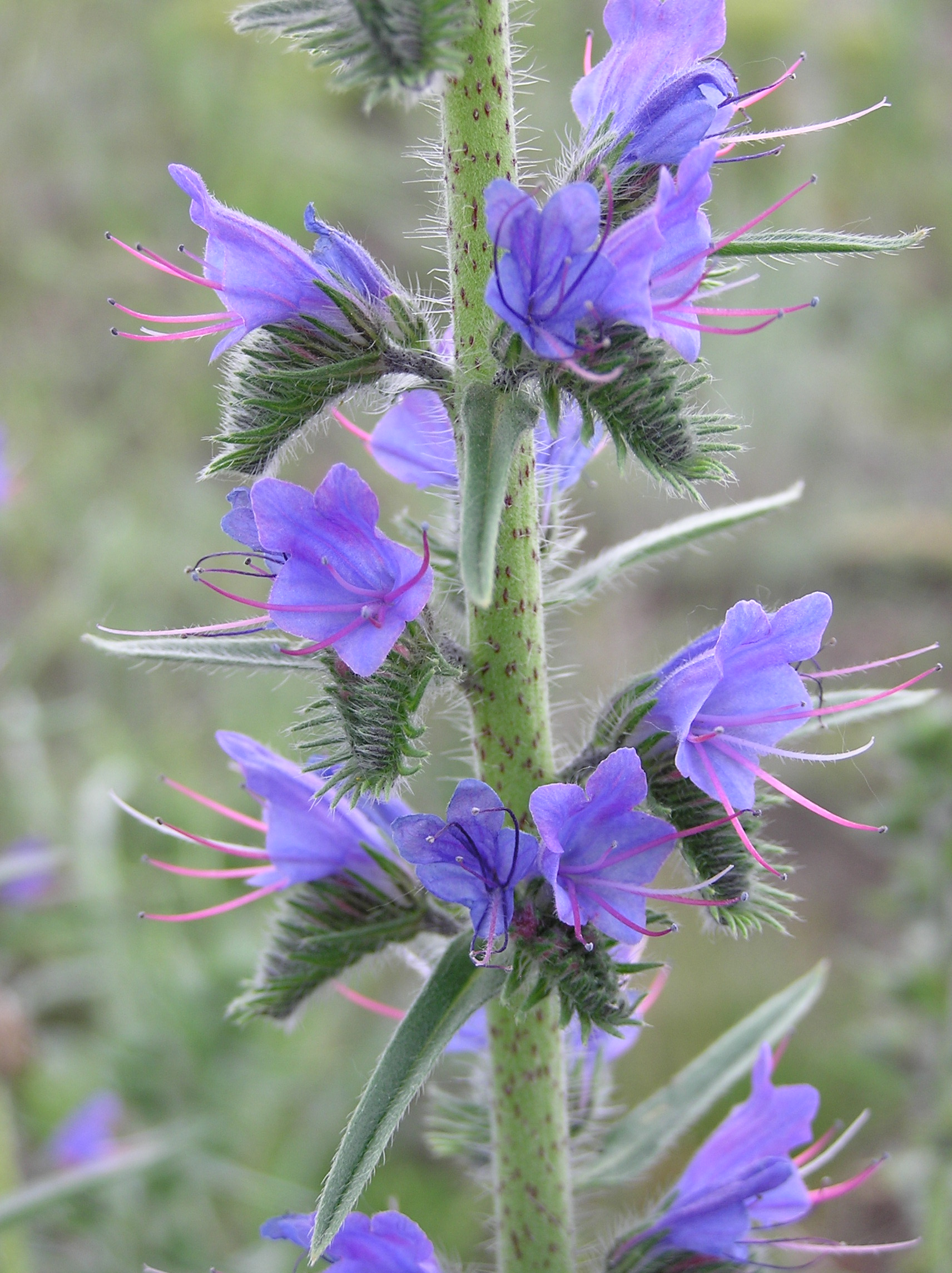 Echium vulgare L. (Viper's Bugloss or Blueweed). Vicinity of Saratov city, Russia.